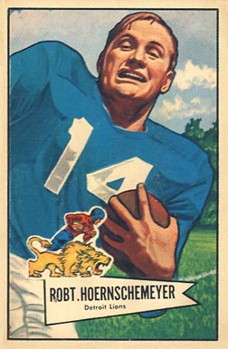 American football player Robert Hoernschemeyer on a 1952 Bowman Large card.